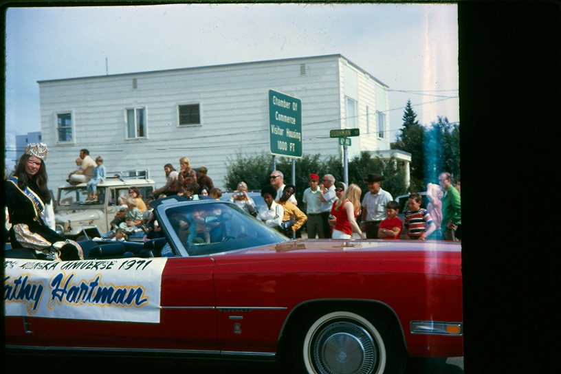 Beauty contestant [K]athy Hartman rides in a red convertible in a parade, Alaska, 1971 Anybody recognize the location? the car?(This is Cushman Street in downtown Fairbanks. The city block in the background is the same block where this building sits today. I'm too young to recognize the car. What I want to know: was Kathy's face obscured for the purposes of this photo or this download, or is it an incredible coincidence that there's a scanning error there which is little else evident in the photo?RadioKAOS (talk) 06:00, 5 February 2013 (UTC))